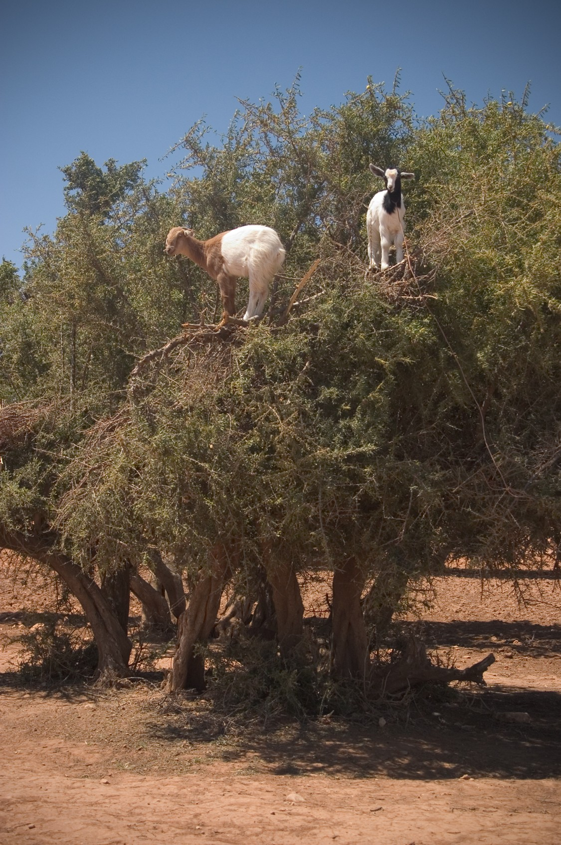 Goats on a Argan (Argania spinosa) in Morocco